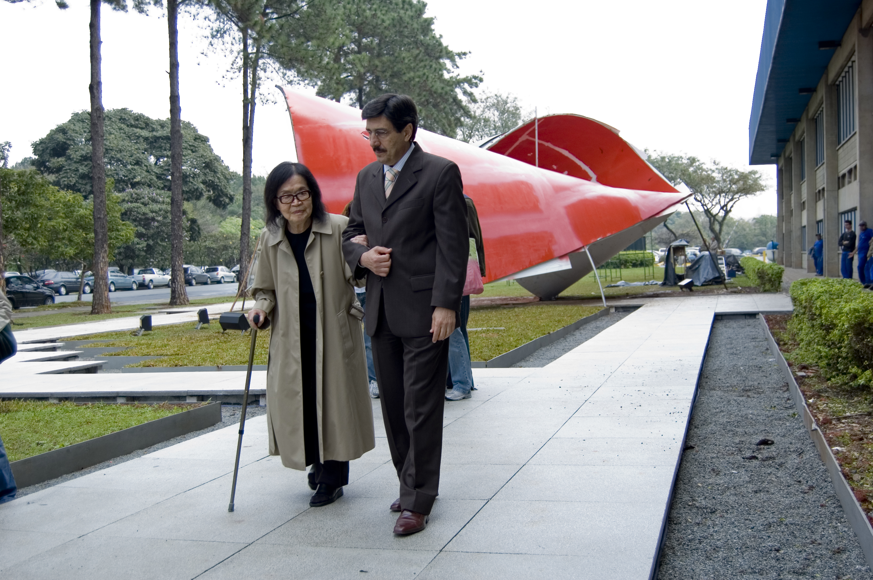 photo by Vladimir AOH: Sculpture/Tomie Ohtake at Universidade de Sao Paulo/Brazil